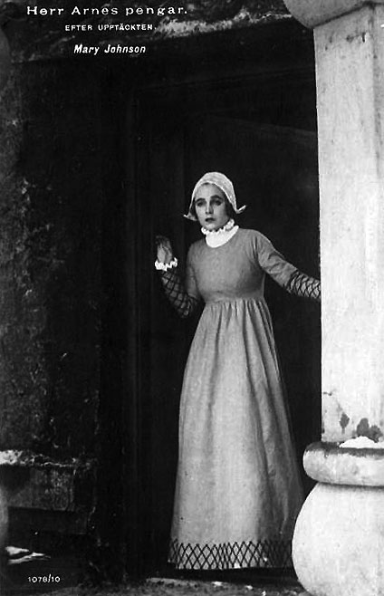 Mary Johnson in the movie Herr Arnes pengar (1919).